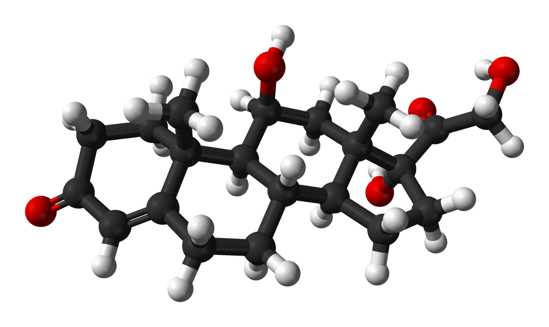 Ball-and-stick model of the cortisol (hydrocortisone) molecule. Structure from the Spartan database in Spartan '04 Student Edition. Image generated in Accelrys DS Visualizer.